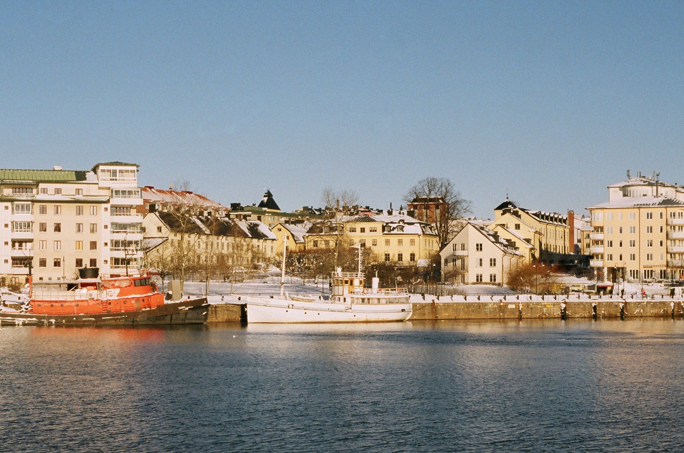 Barnängen